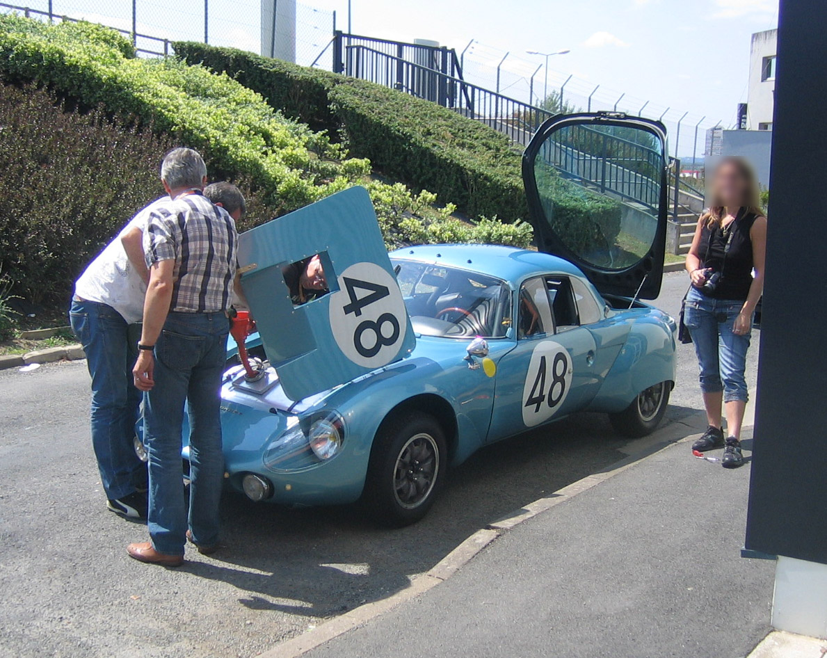 René Bonnet Aérodjet filling the tank. #48 competed at Le Mans 1964, it is unknown if this is the same car.Event: 2011 LM Story, Circuit Bugatti, Le Mans